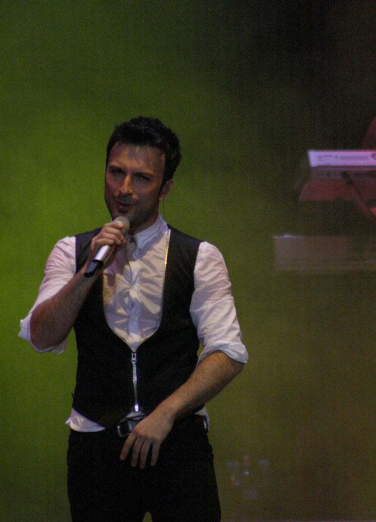 Turkish singer Tarkan.